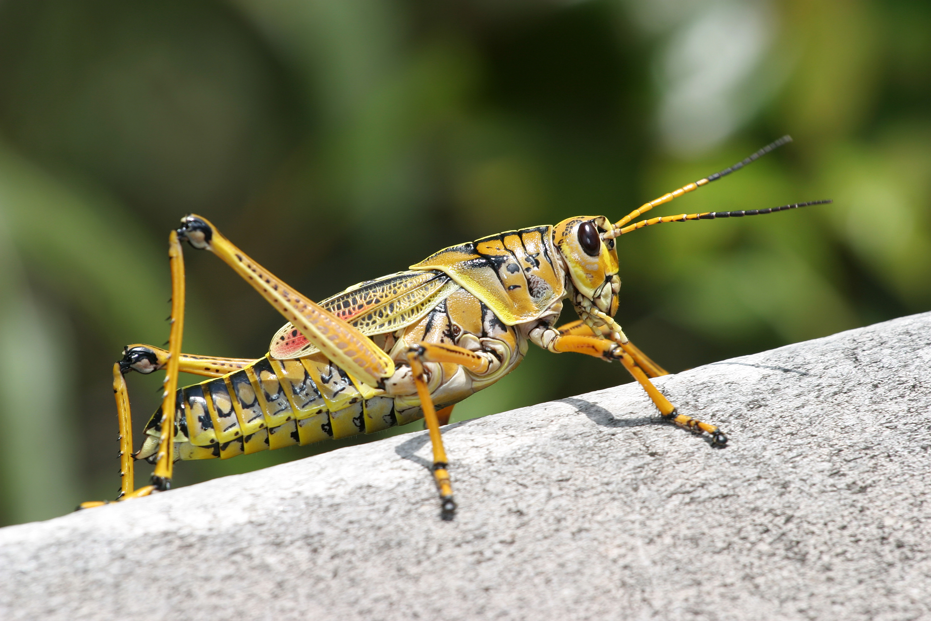 Eastern Lubber Grasshopper